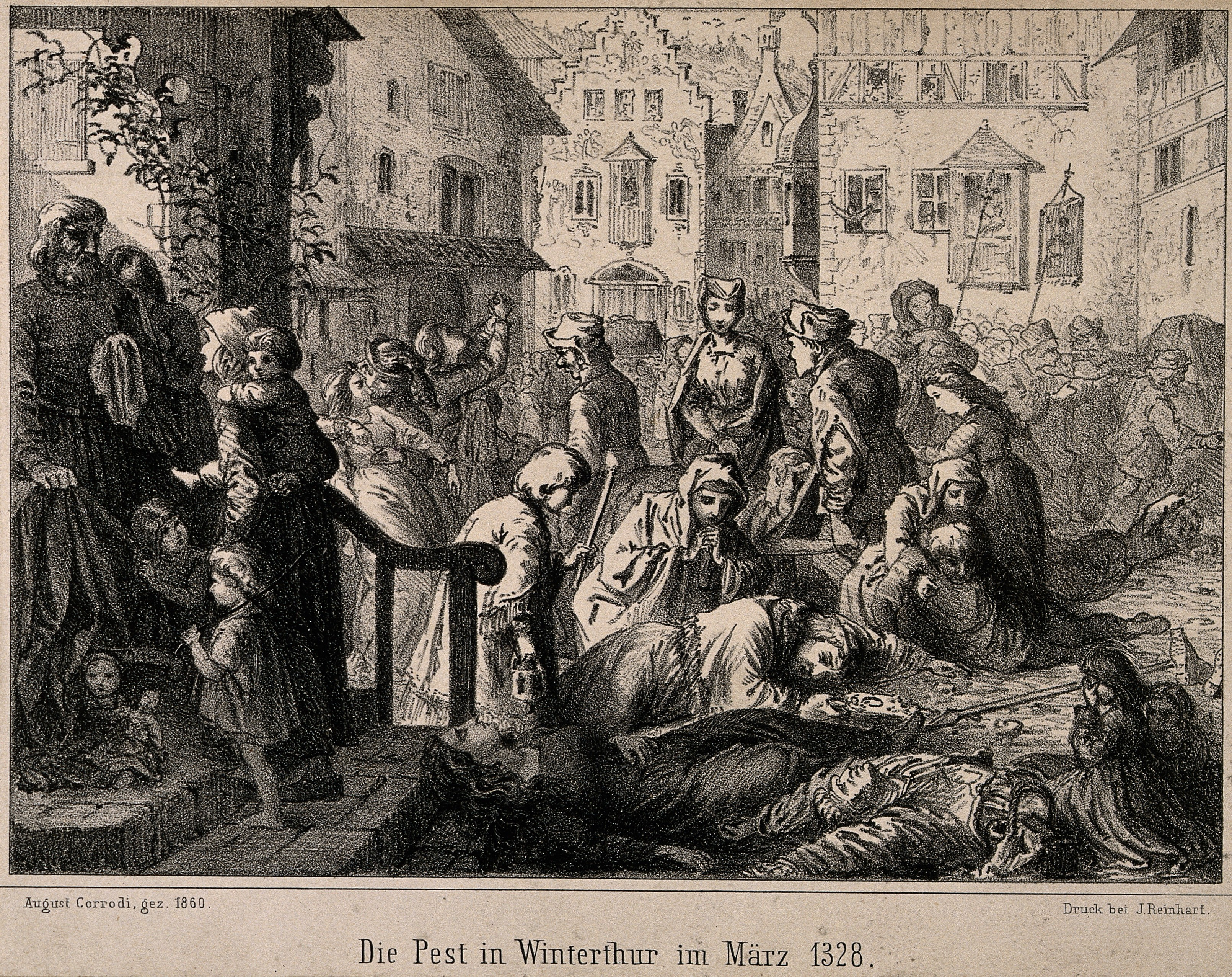 The plague in Winterthur in 1328. Lithograph by A. Corrodi, 1860. Iconographic Collections Keywords: Epidemics; corrodi, august; lithograph; Plague; August Corrodi; ic